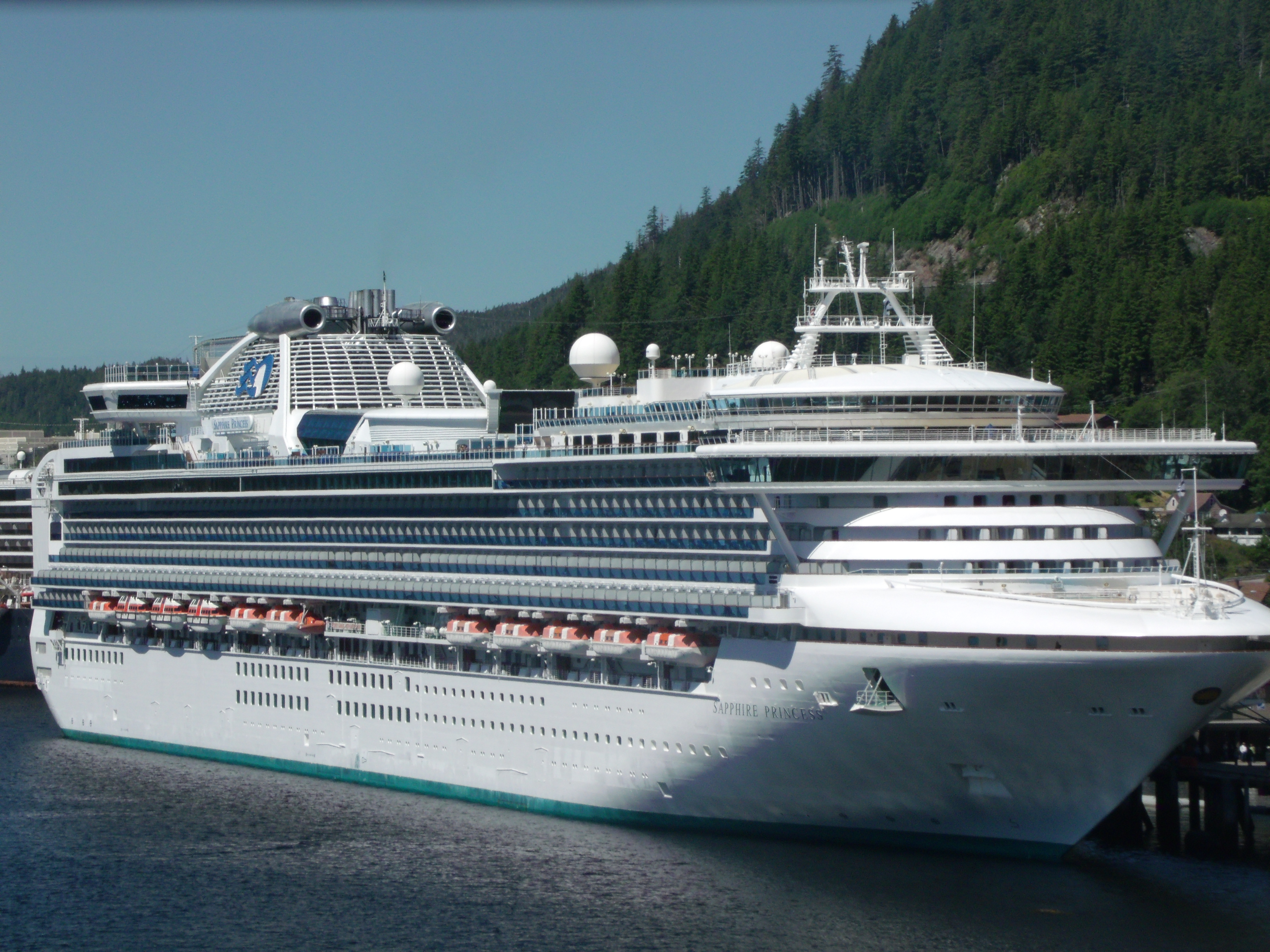 Sapphire Princess at Ketchikan, Alaska